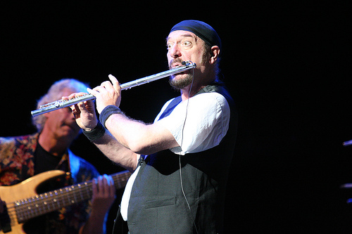 Jethro Tull on their American Tour